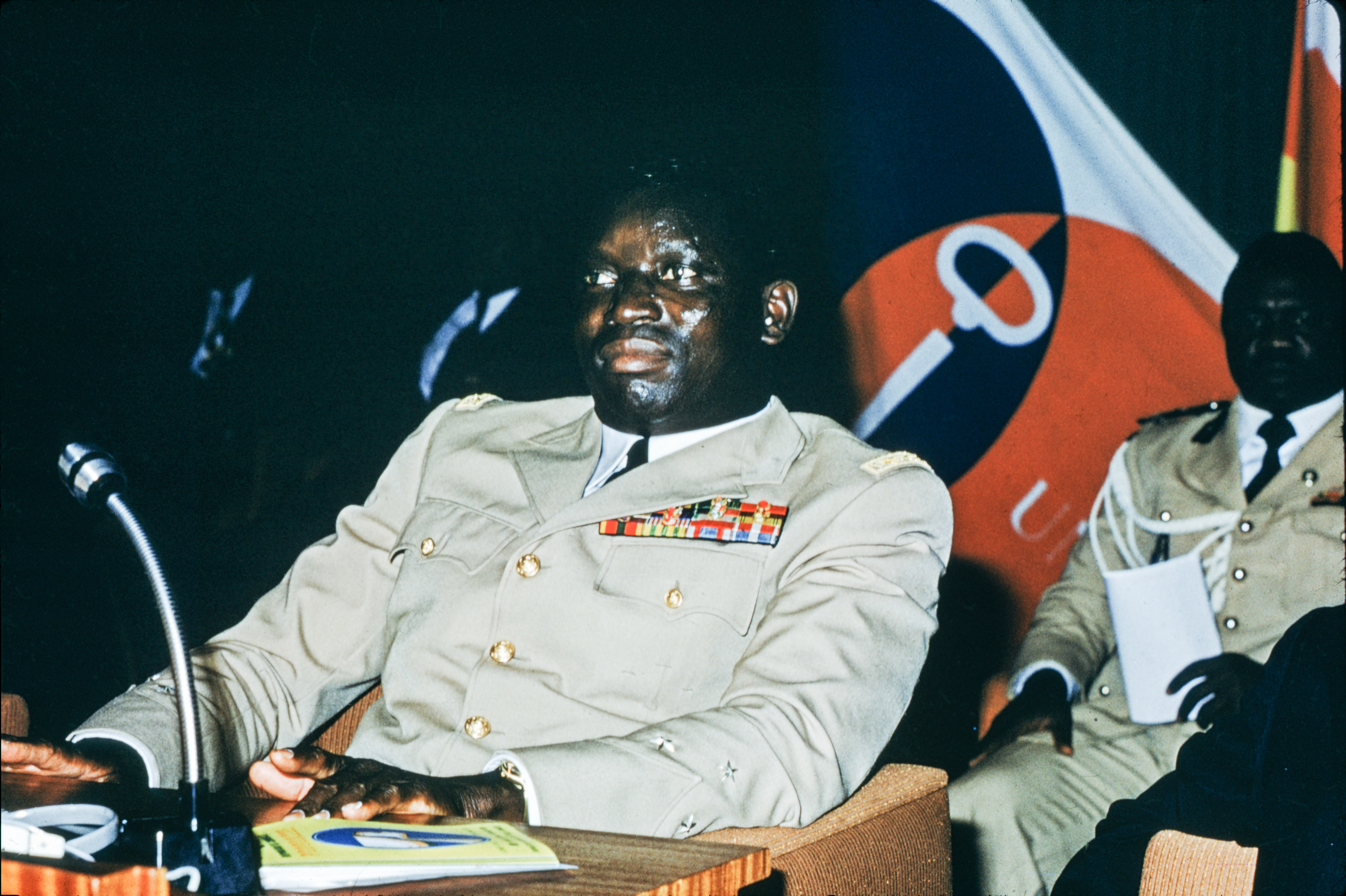 Togolese president Gnassingbé Eyadema.